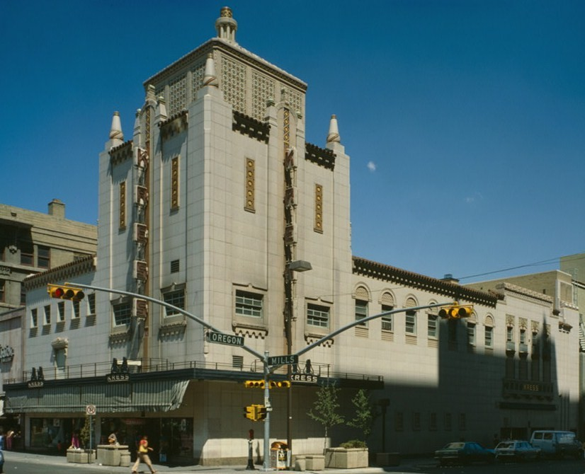 Kress Building, northwest corner of North Oregon and Mills Ave., El Paso, TX. Color transparency